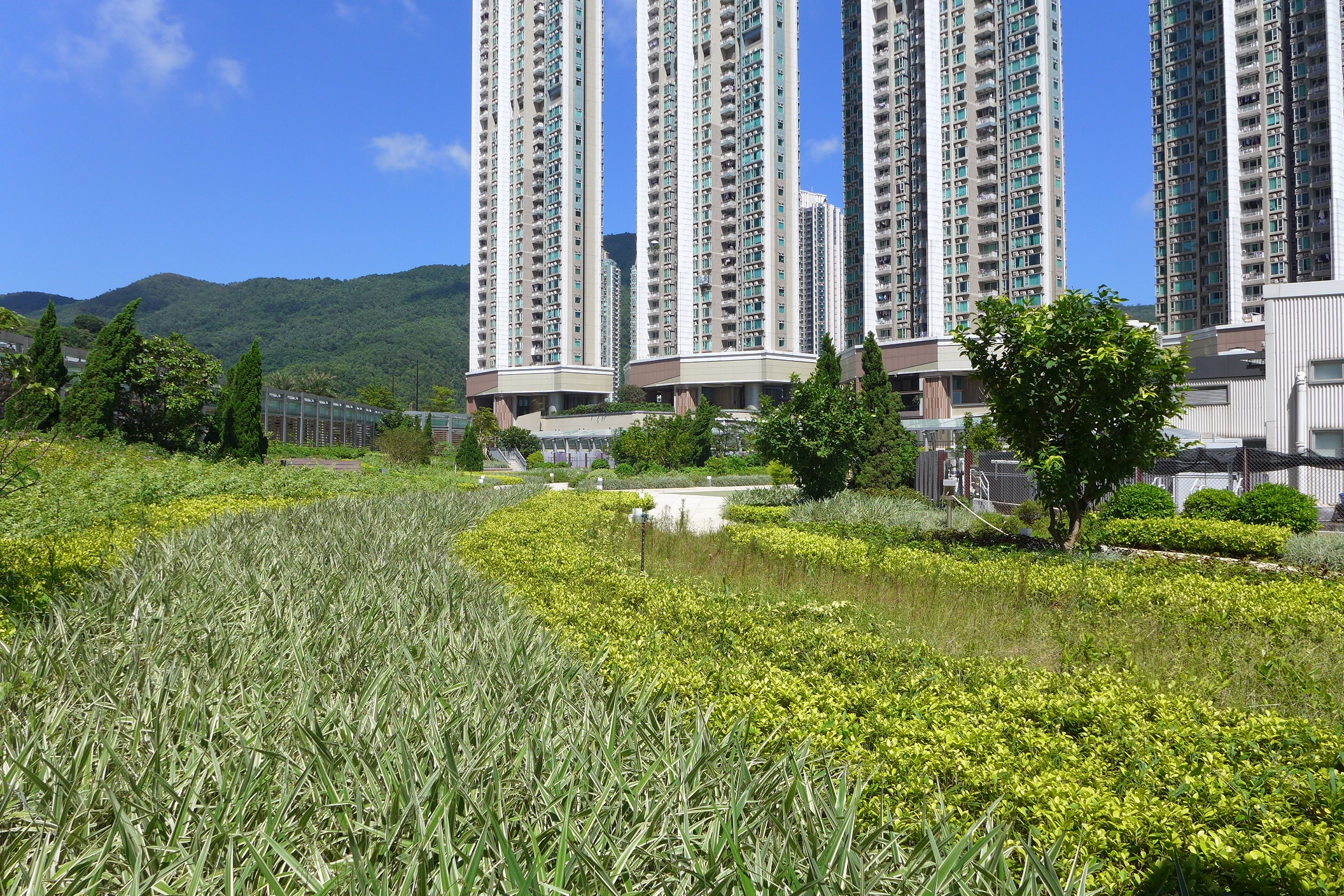 LOHAS Park Temporary Park